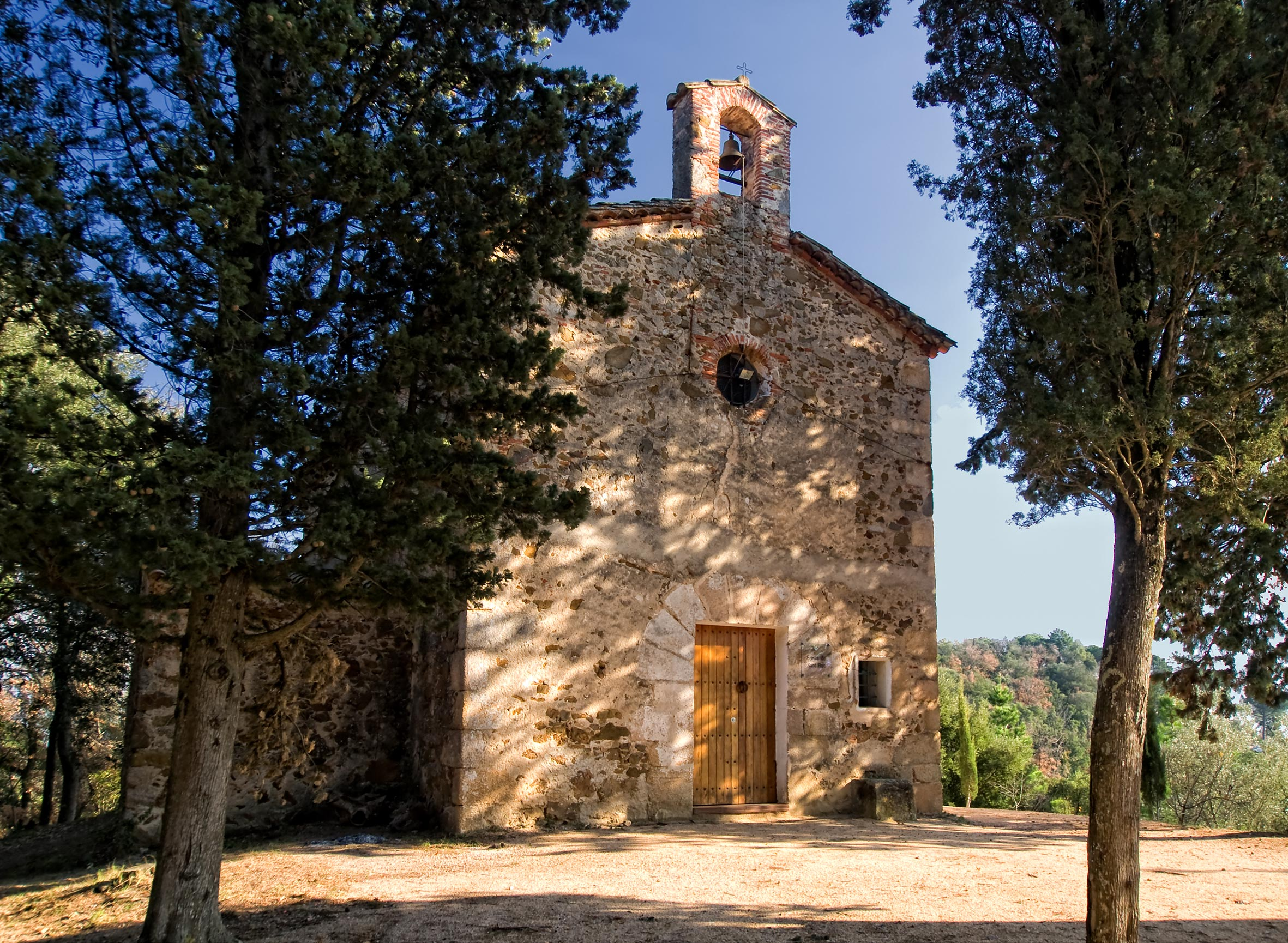 Sant Roc de Massanes church (Catalonia, Spain)